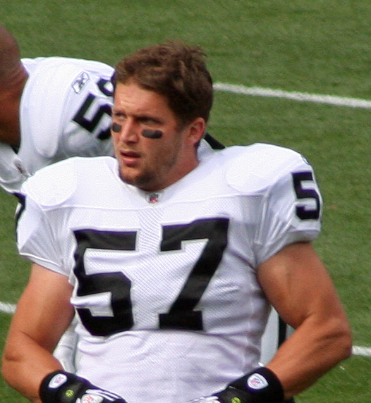 Ricky Brown, a player on the Oakland Raiders American football team.